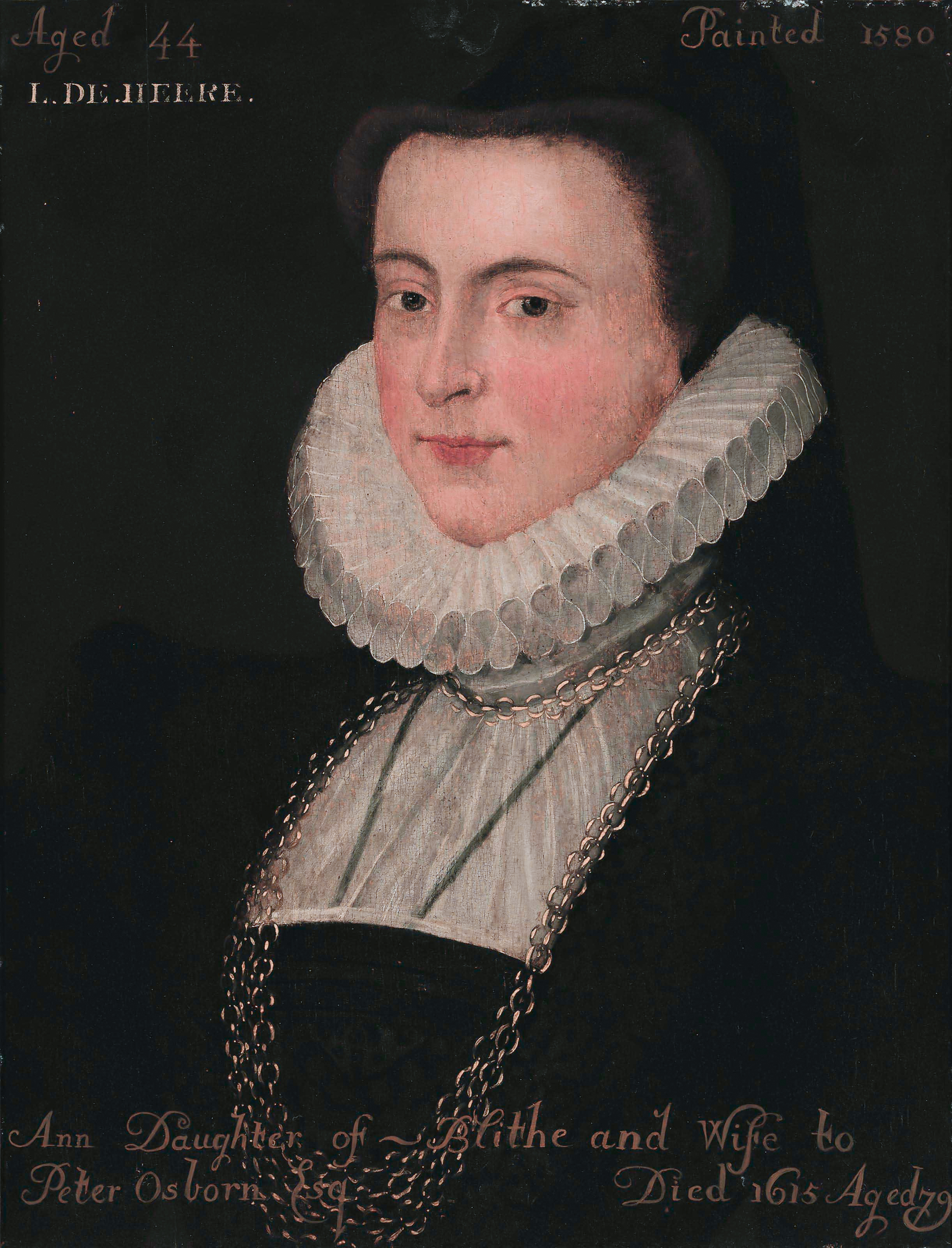 Anne Blythe (1536-1615), wife of Peter Osborn oil on panel 53.3 x 40 cm 1580 inscribed t.l.: Aged 44 / L. DE. HEERE. inscrilbed t.r.: Painted 1580 inscribed b.: Ann Daughter of Blythe and Wife to / Peter Osborn Esq. Died 1615 Aged 79